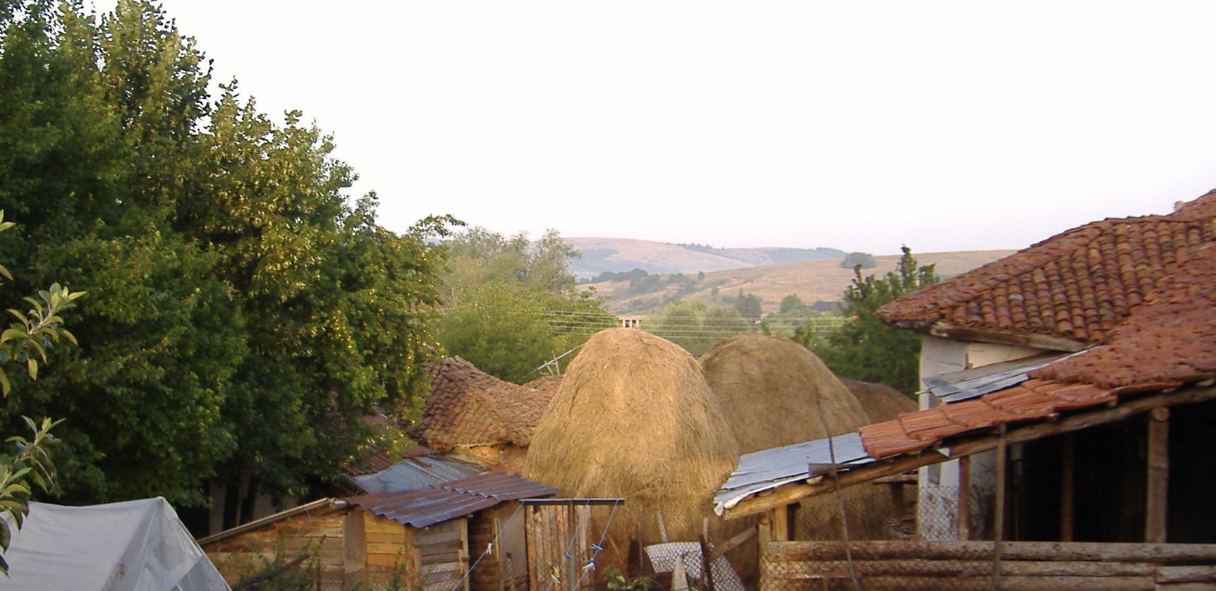 Village of Velkovtzi, Pernik District, Bulgaria